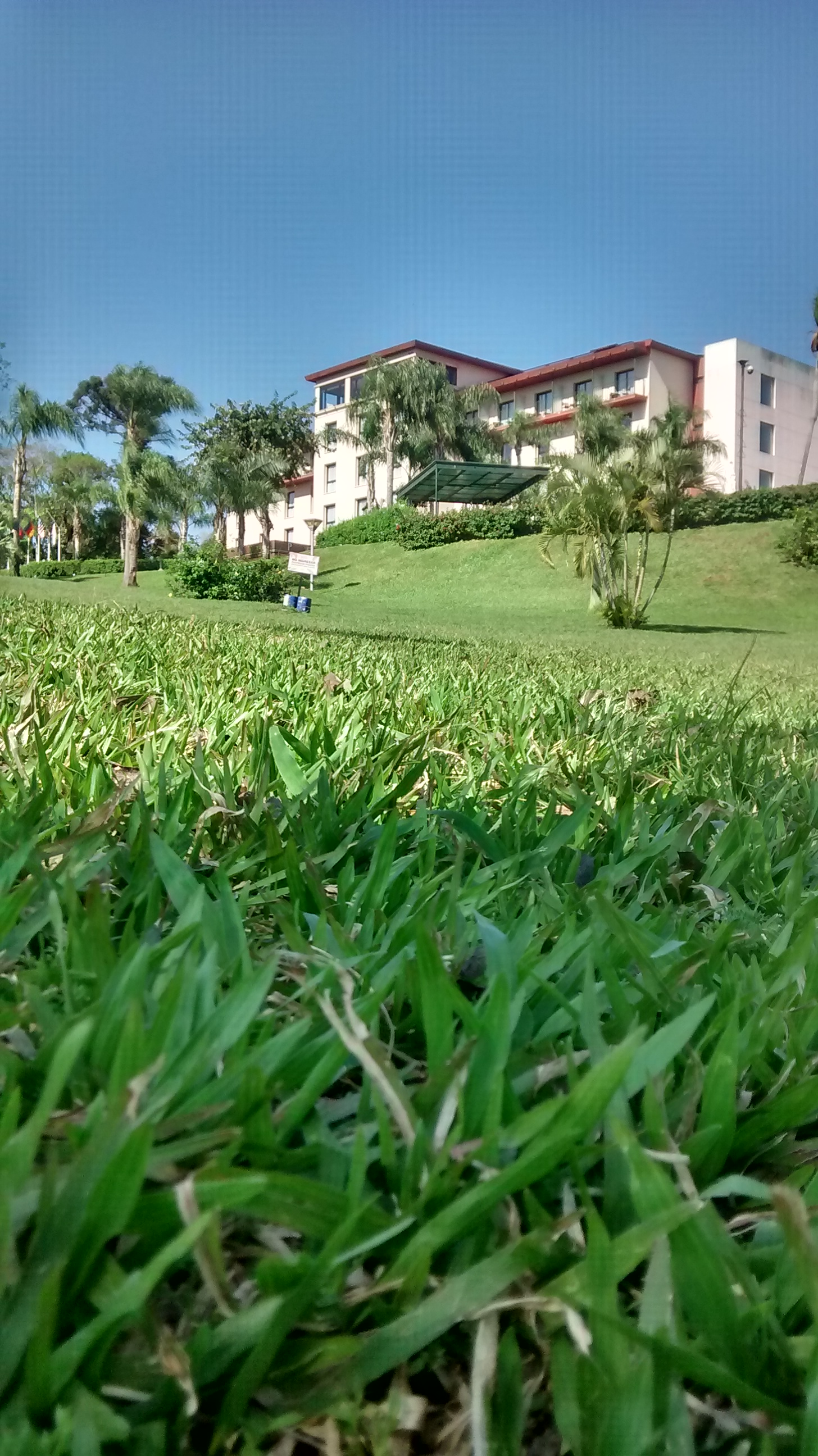 Hotel de lujo con vistas al río iguazu en la ciudad de puerto iguazu monumento arquitectónico